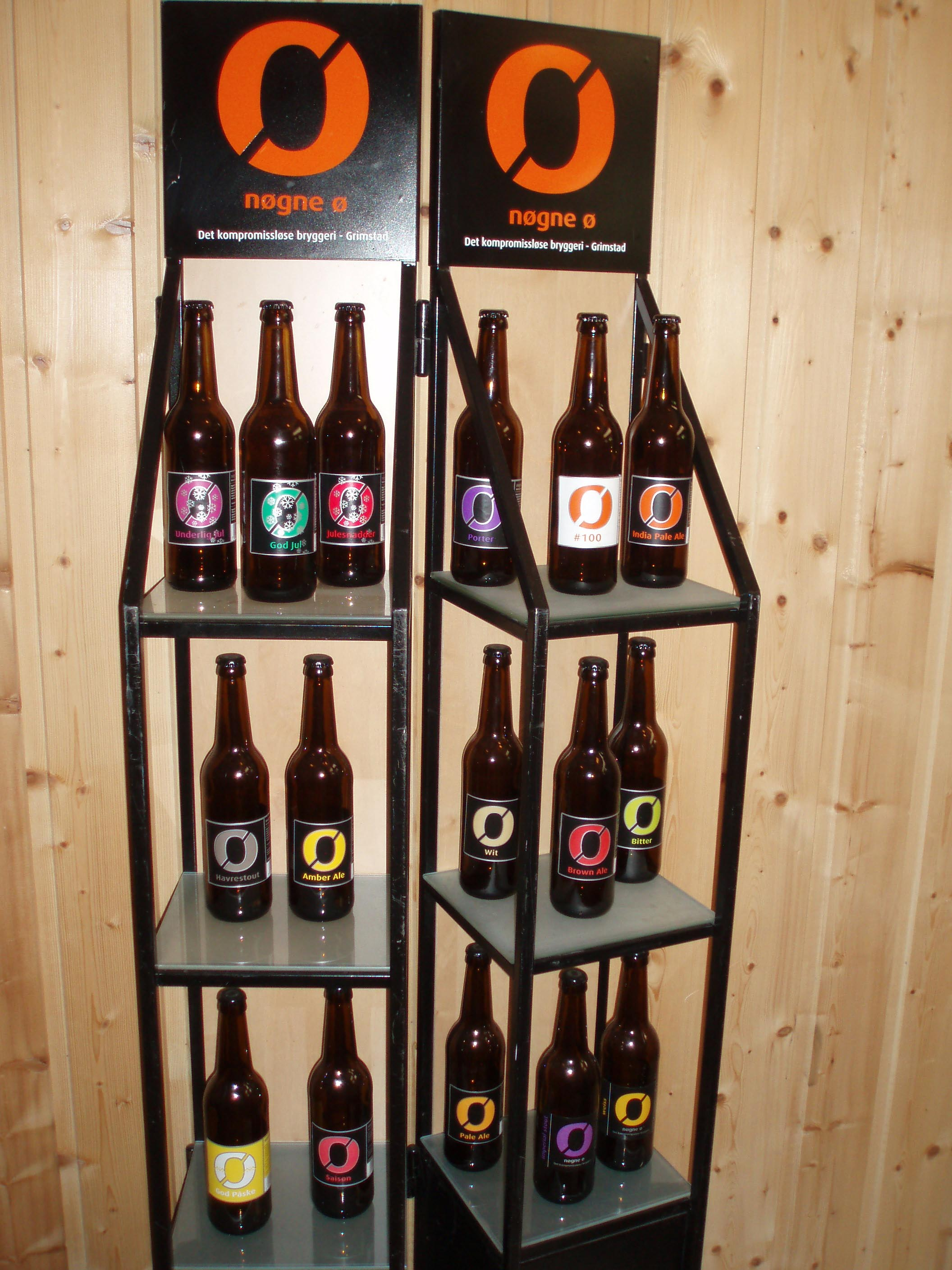 Different beer products from "Nøgne Ø" brewery, Norway. Photo by User:Friman 2006-07-09.